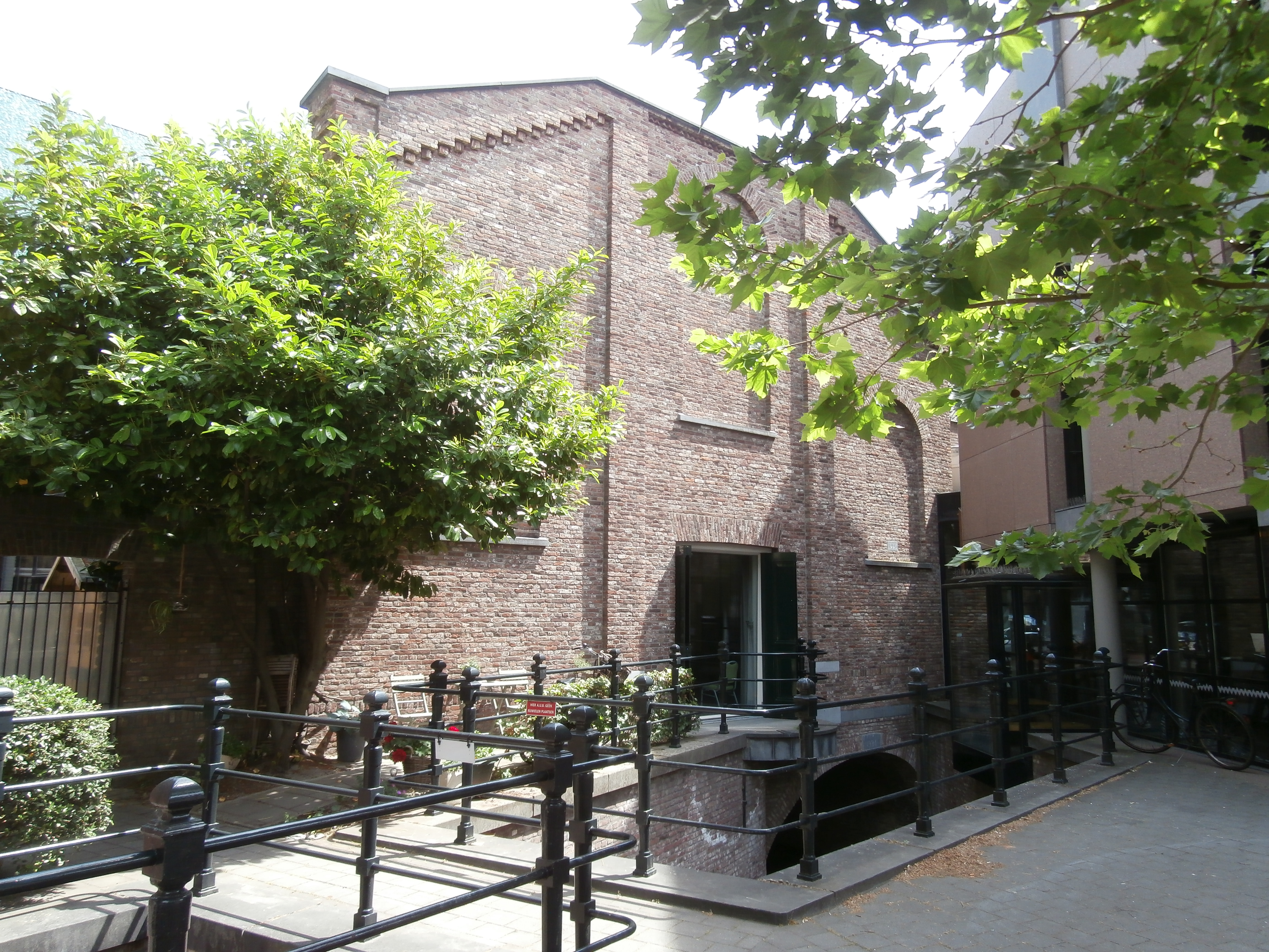 Kleine Vughterstroom exit of Hellegat under synagogue view to the east.